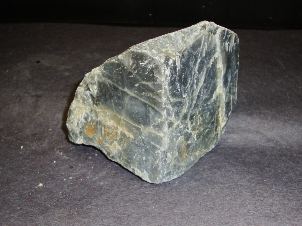 Andesine, mineral mix from Albite and Anorthite Dimensions: 6 cm x 5 cm x 5 cm Locality: Montpelier Mine (Bowe Farm Prospect; Feldspar Corporation Quarry), Montpelier, Hanover County, Virginia, USA